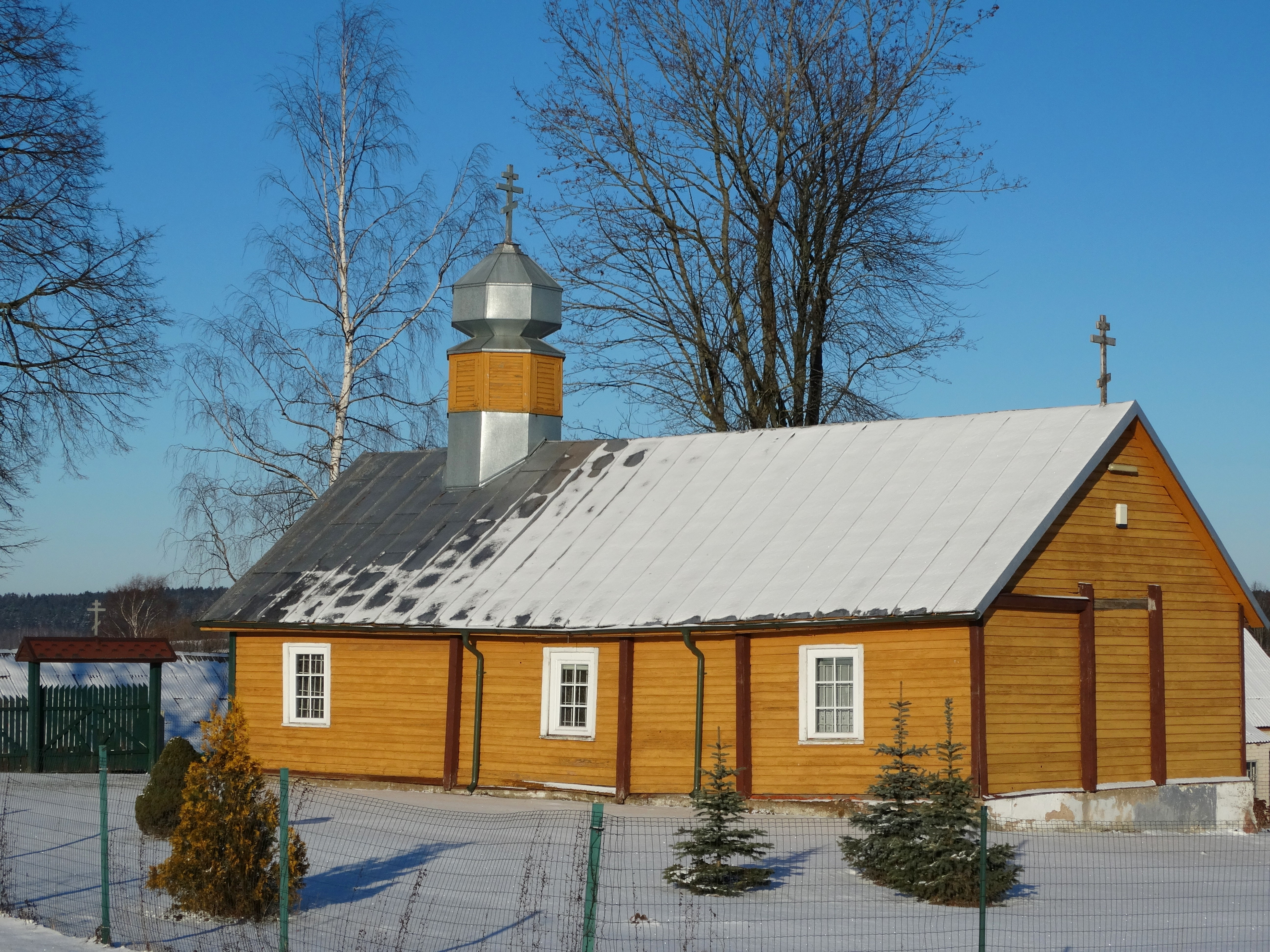 Orthodox Church of Old Believers in Mūro Strėvininkai, Kaišiadorys district, Lithuania